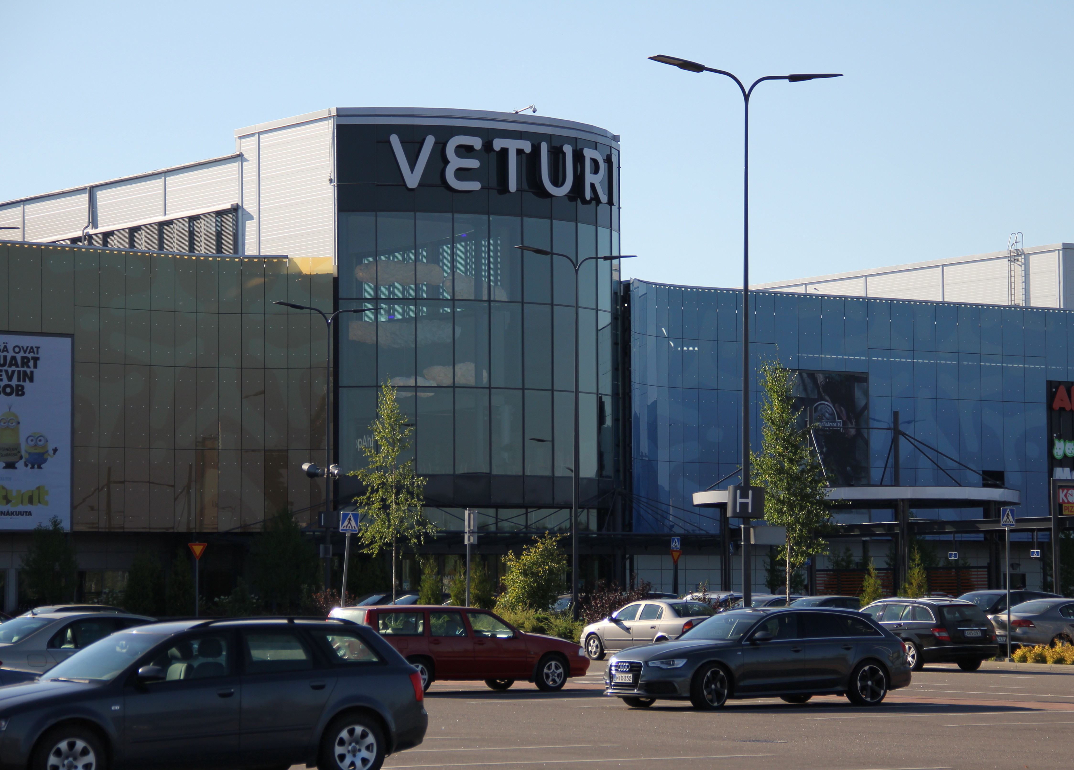 Shopping center Veturi, Kouvola, Finland.